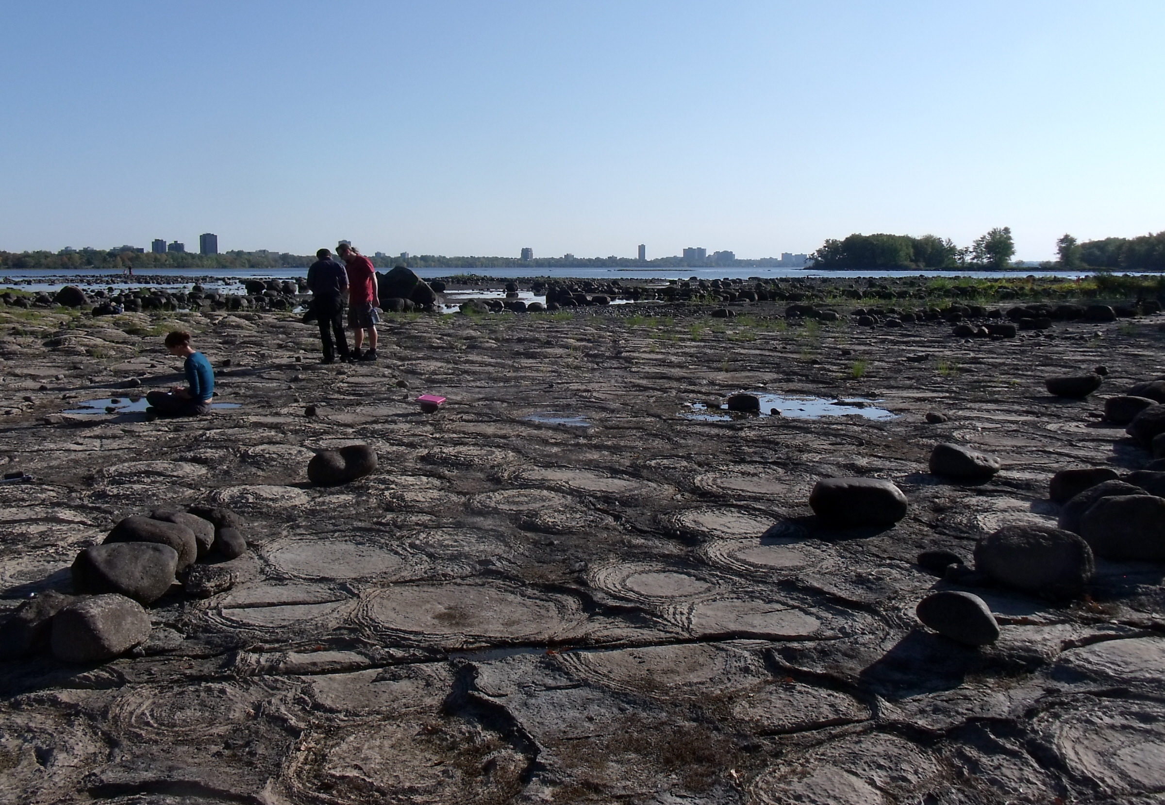 Blue sky, Canada's capital city skyline, the roar of traffic, university geology students for scale and stromatolites underfoot. A great day in the "field". much beyondhue's view at